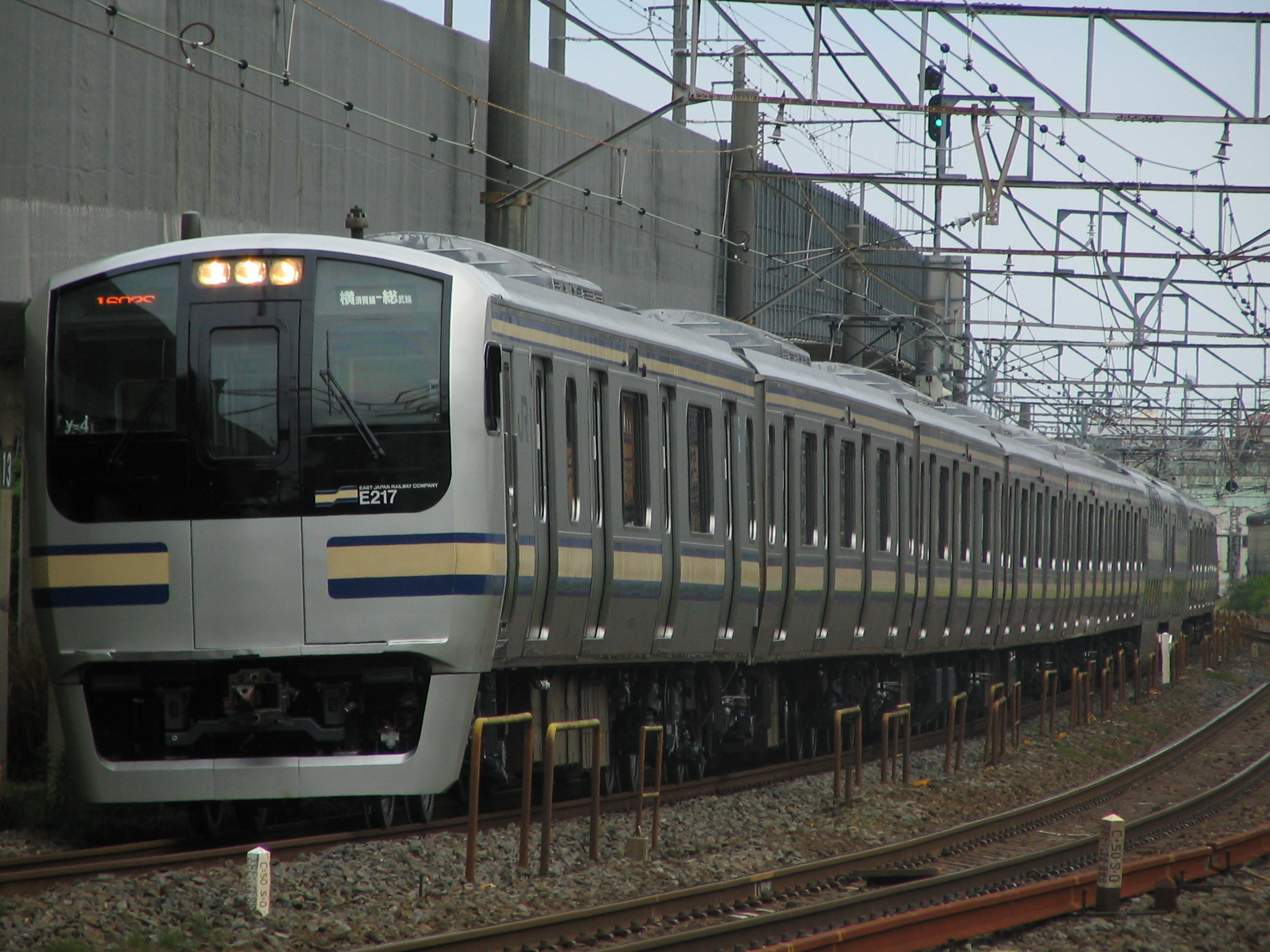 JR東日本E217系電車 戸塚～東戸塚にて TYPE-E217 runs in East Japan Railway company between Totsuka and Higashi-Totsuka.